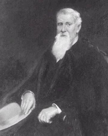 Jay Cooke- Out-of-copyright pic of Jay Cooke (1821-1905)